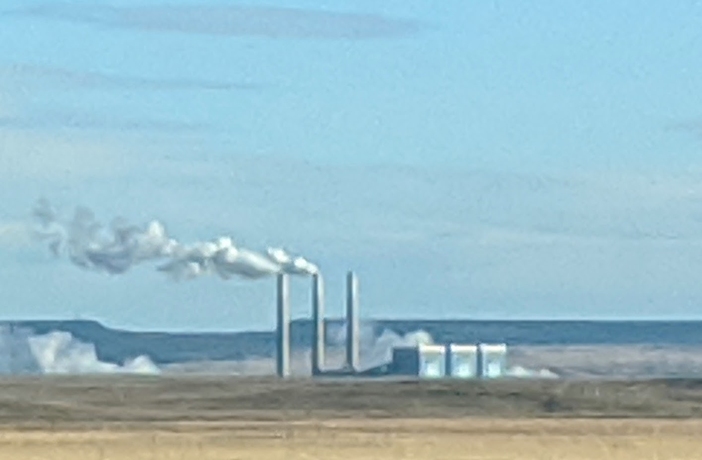 Laramie River Station in Platte County, WY taken from N Wheatland Hwy facing South